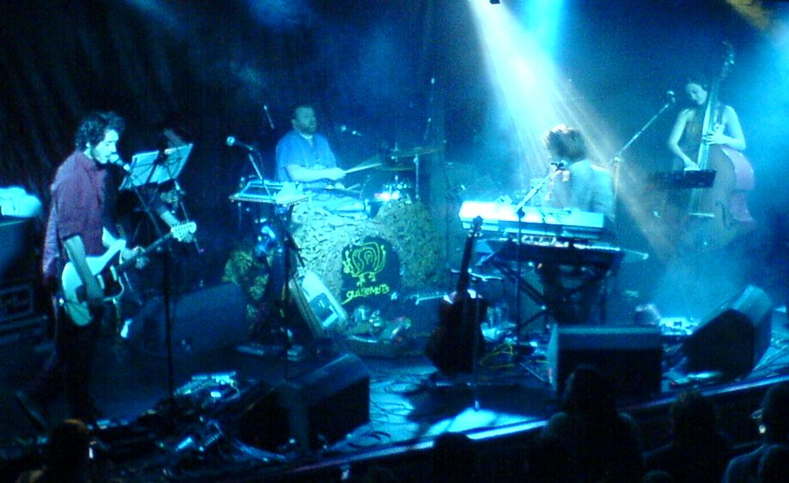 Taken at a Guillemots gig at Edinburgh Liquid Rooms on 26th May 2006